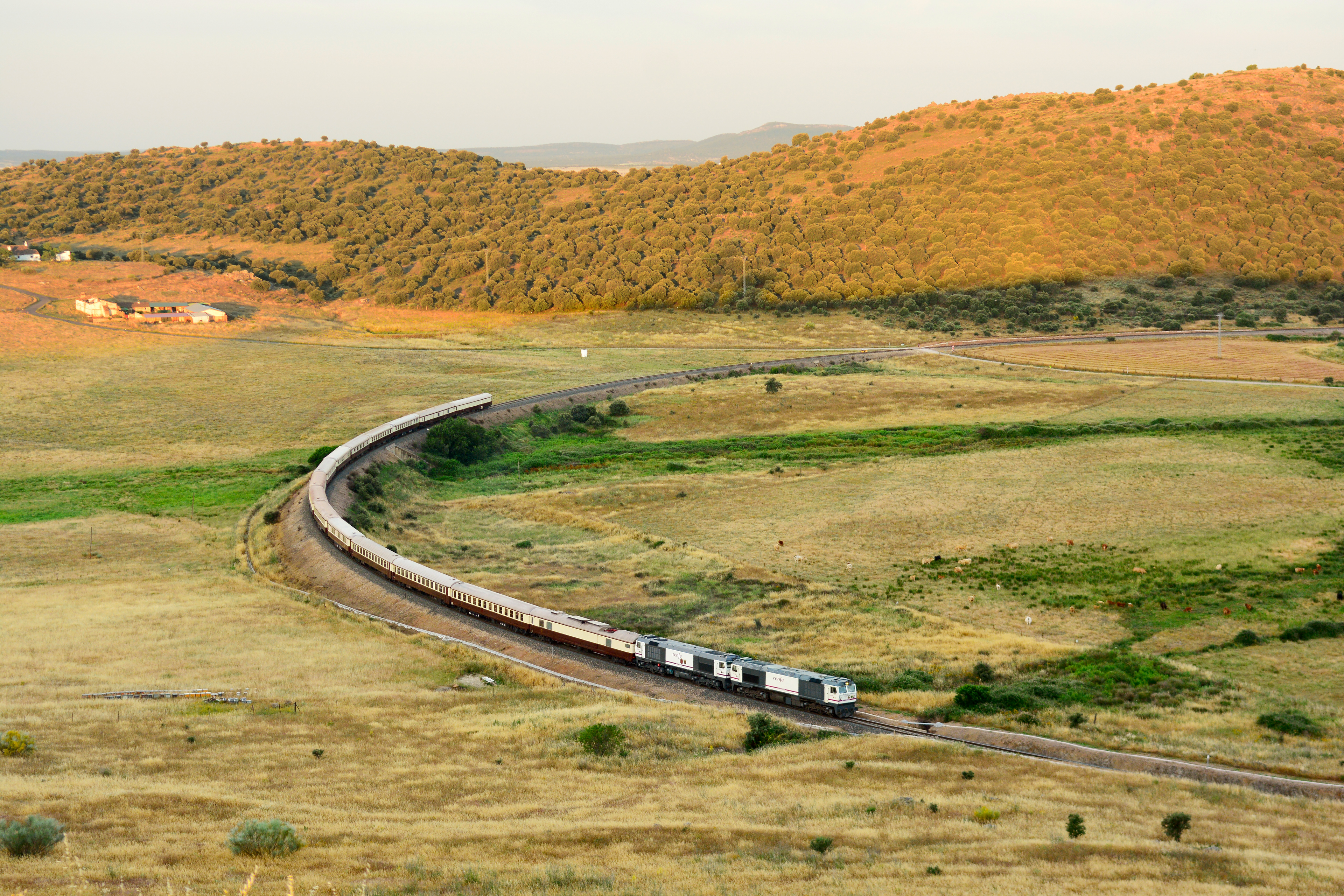 Comboio de luxo "Al Andalus" a chegar a estação de Cáceres nos primeiros raios de sol.